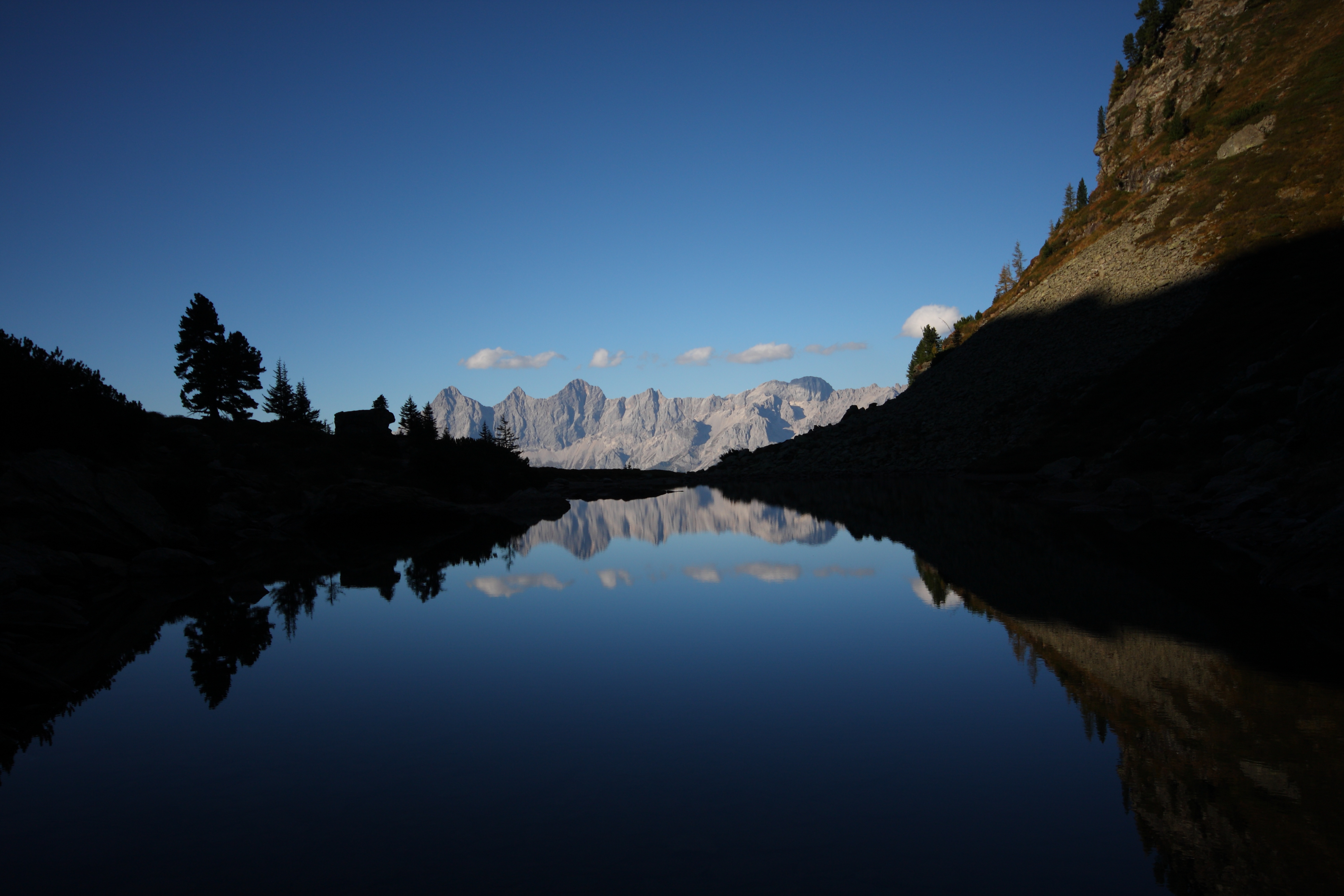 Spiegelsee , Gasselseen, Reiteralm, Styria, Austria